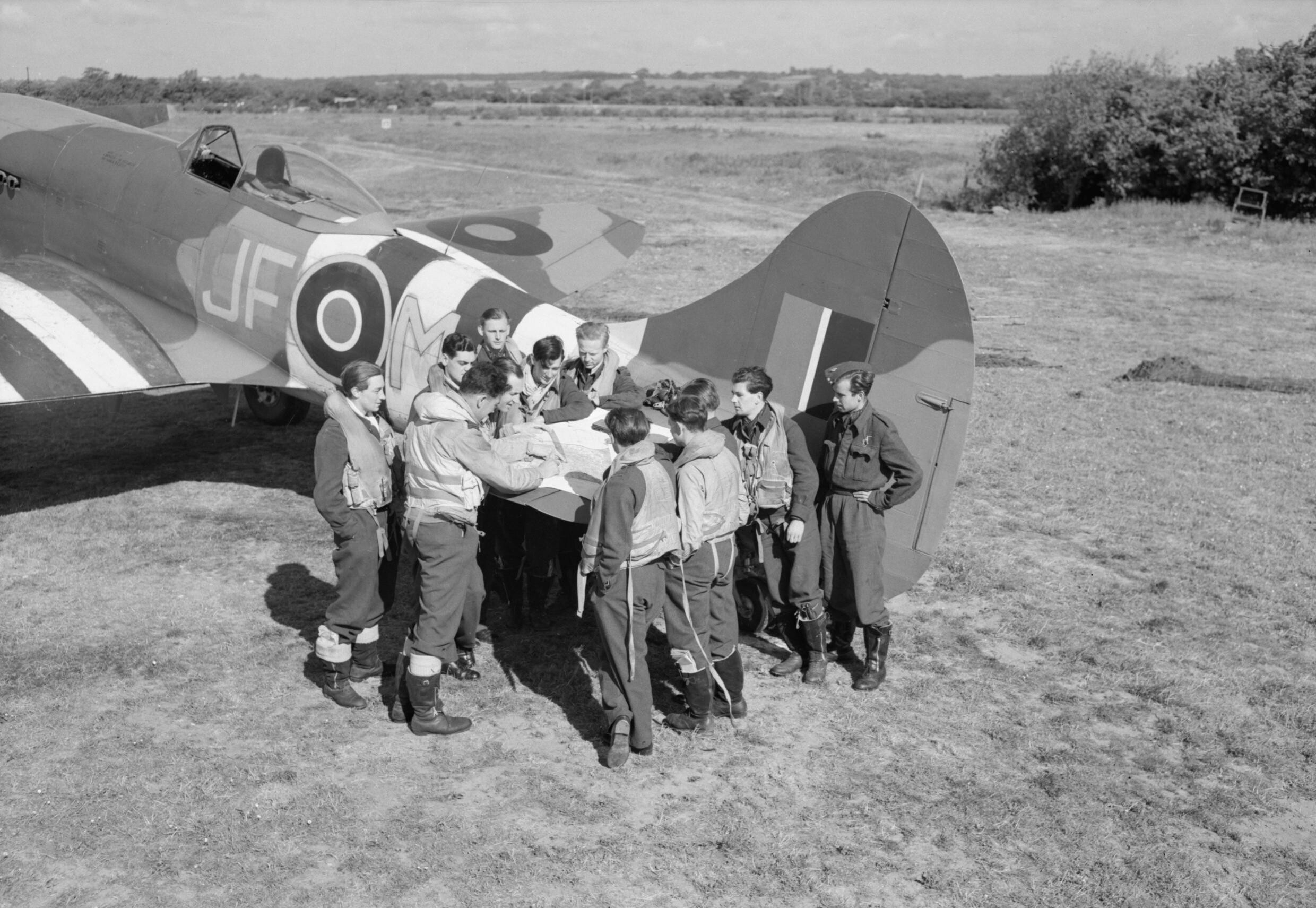 Royal Air Force- 2nd Tactical Air Force, 1943-1945. Squadron Leader A S Dredge, Officer Commanding No. 3 Squadron RAF, briefs his pilots for a sweep over the Caen area, on the elevator of a Hawker Tempest Mark V, 'JF-M' at Newchurch, Kent.